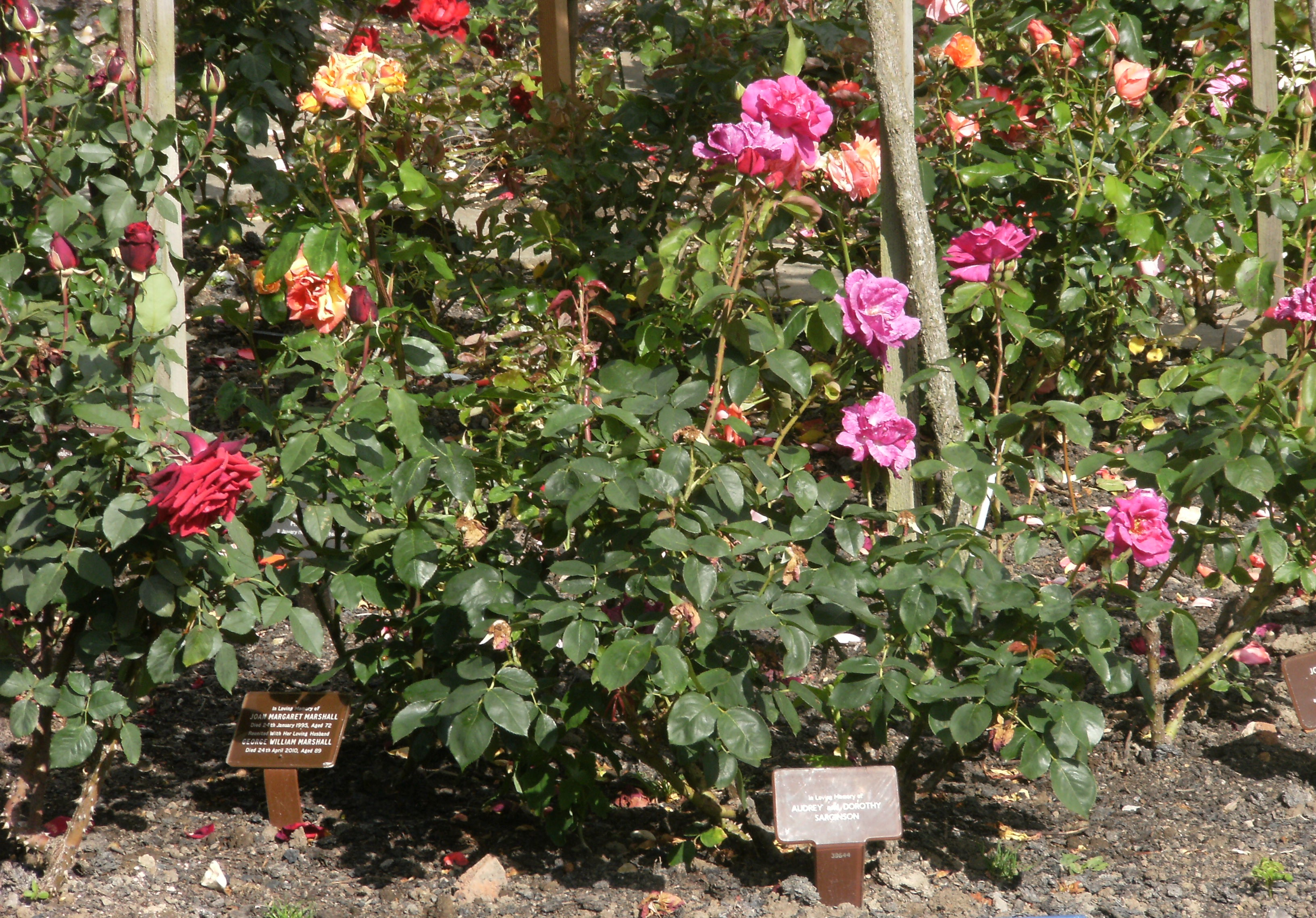 Rose bed at Golders Green Crematorium, 2011-05-31 in London